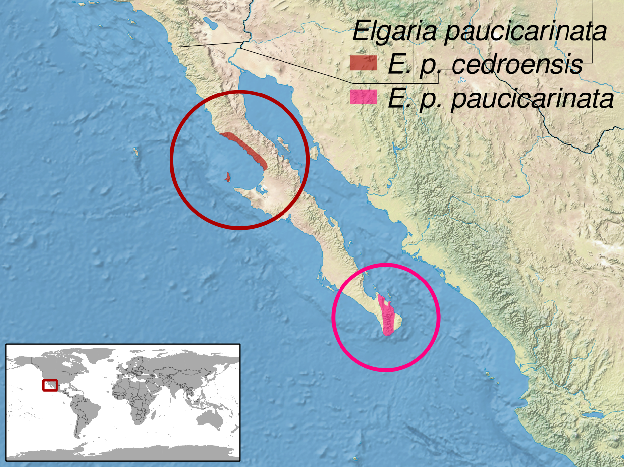 Geographic distribution of Elgaria paucicarinata (Native: Mexico) Included subspecies for RDB: Elgaria paucicarinata paucicarinata Elgaria paucicarinata cedrosensis